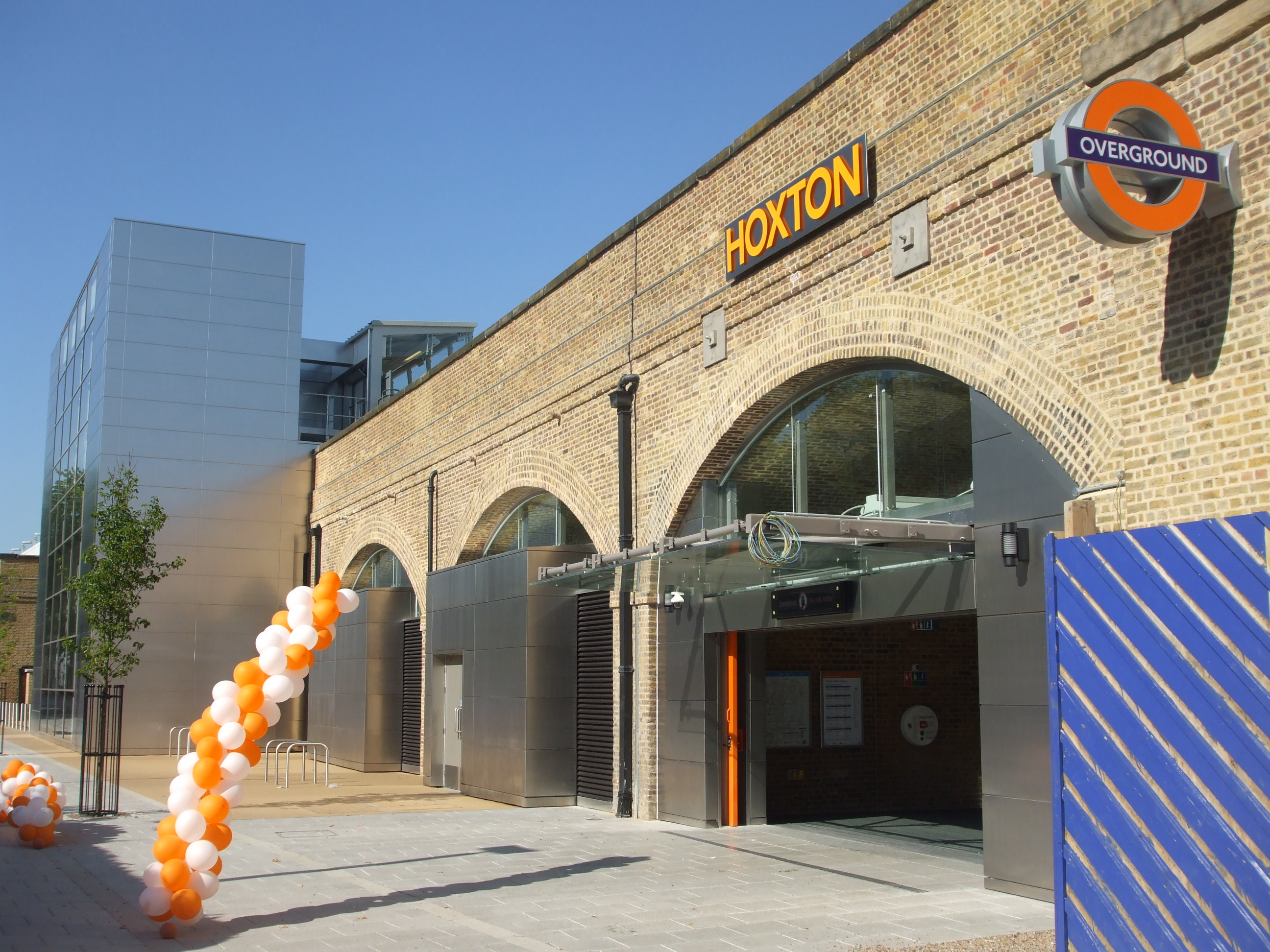 Hoxton station western entrance